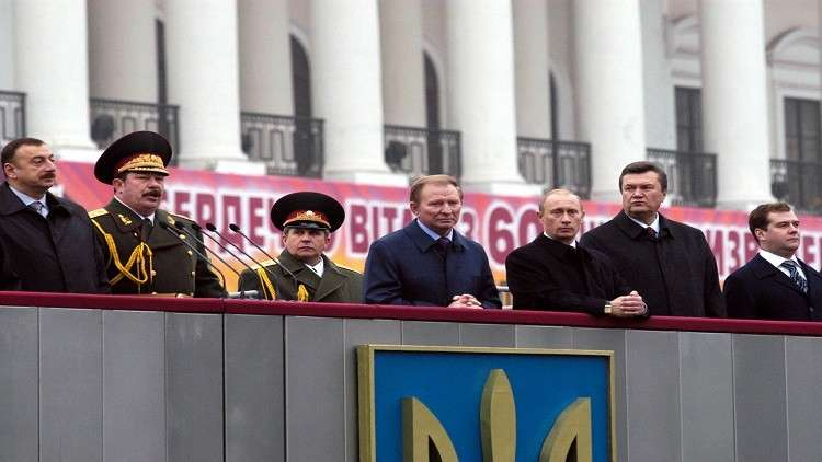 Kiev. Military Parade marking the 60th anniversary of the liberation of Ukraine from Nazi occupation.